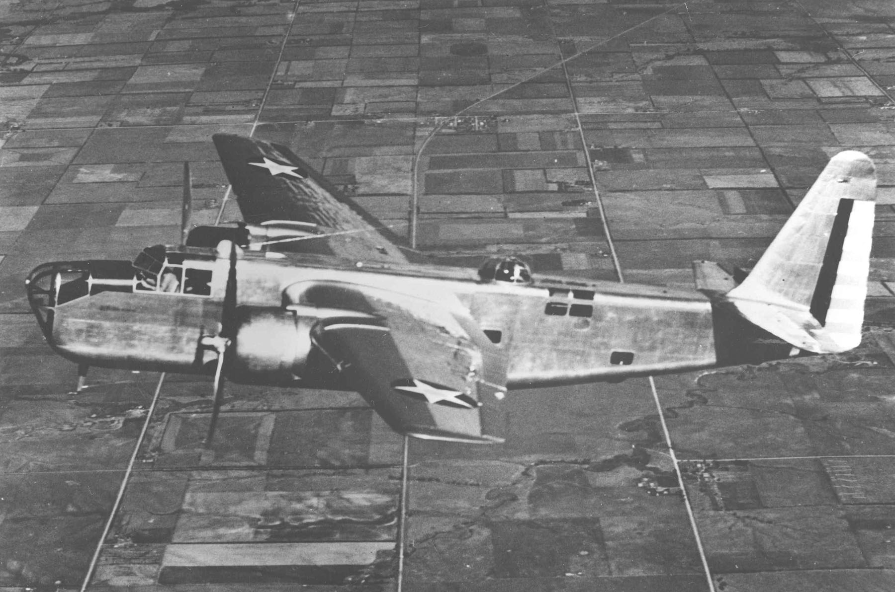 Stearman XA-21 in flight